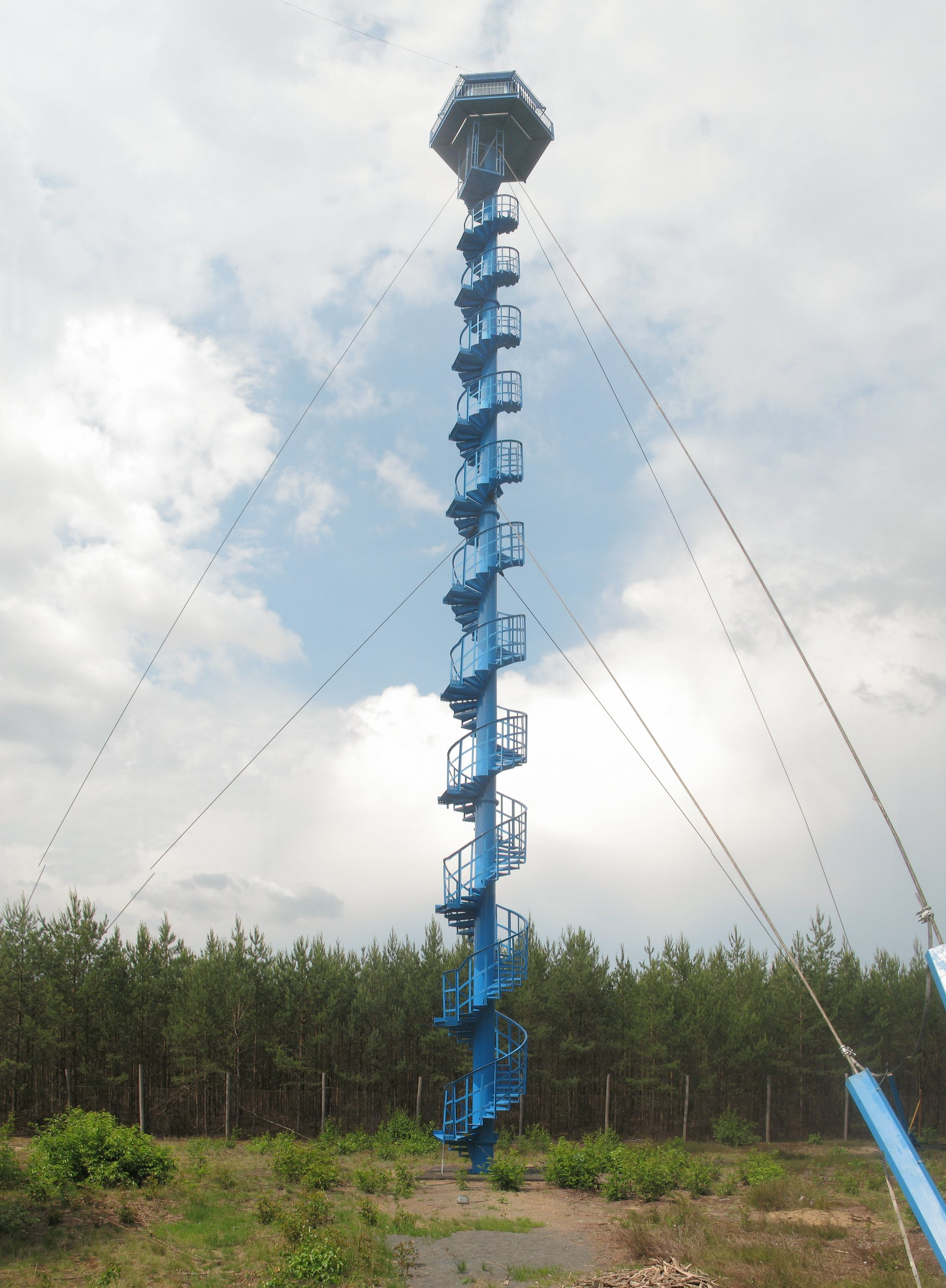 Fire tower in western part of Poland